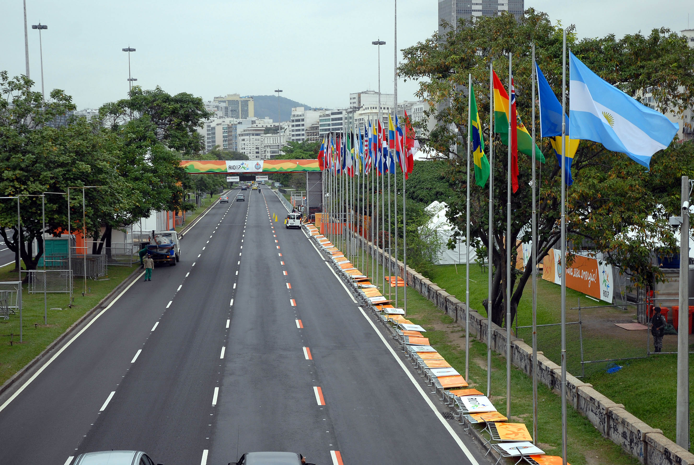 Aterro do Flamengo, part of the race track for the 2007 Pan American Games marathon